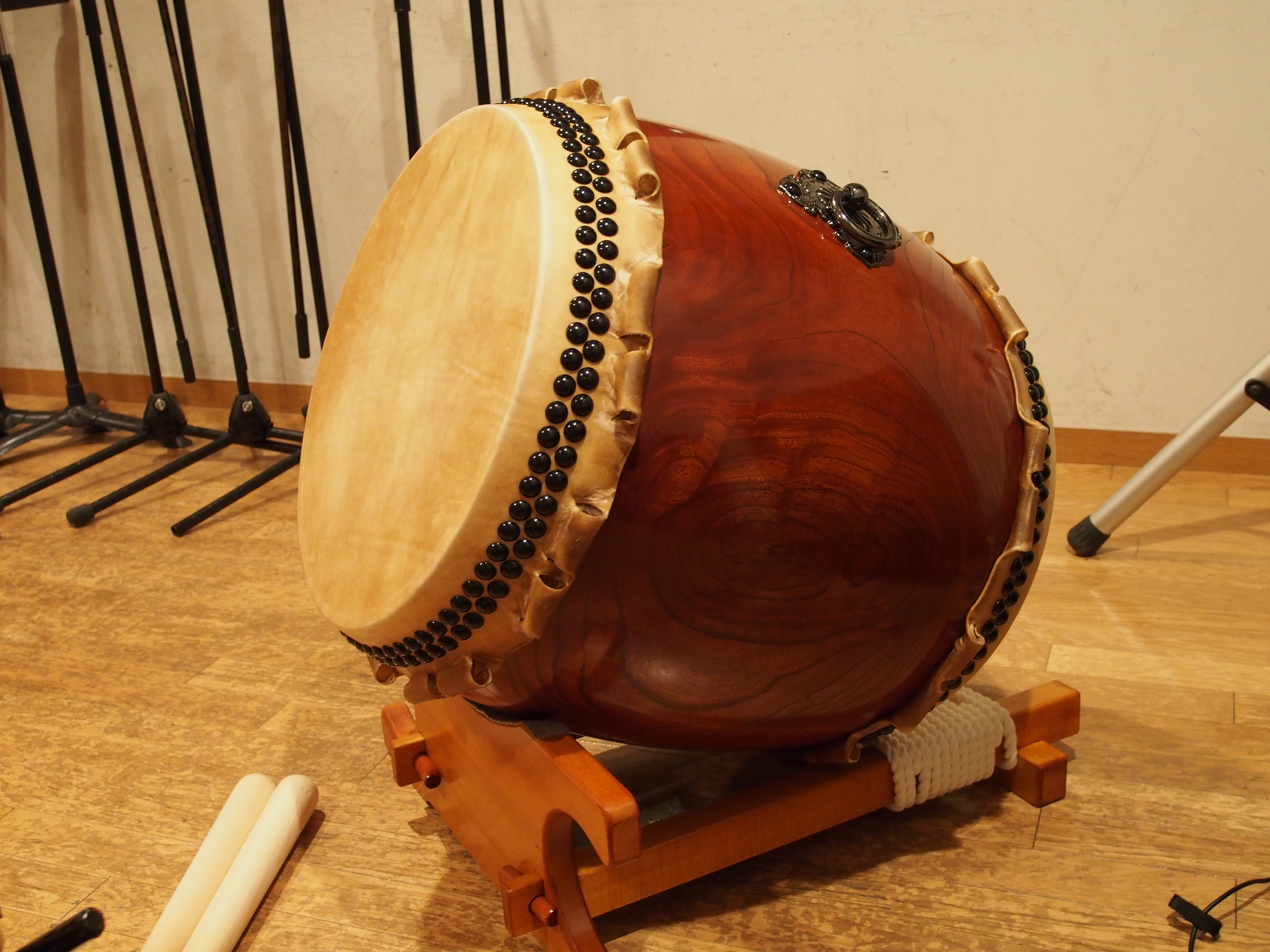 Taiko (Japanese drum) in 1 shaku and 5 sun (approx. 45.5 cm), made with Japanese zelkova